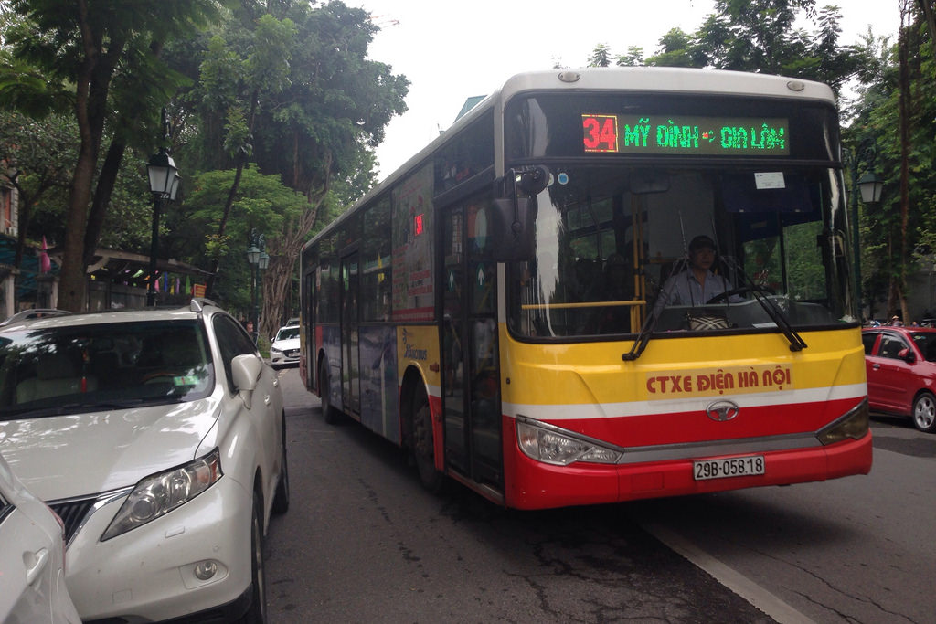 was shot at Trang Tien